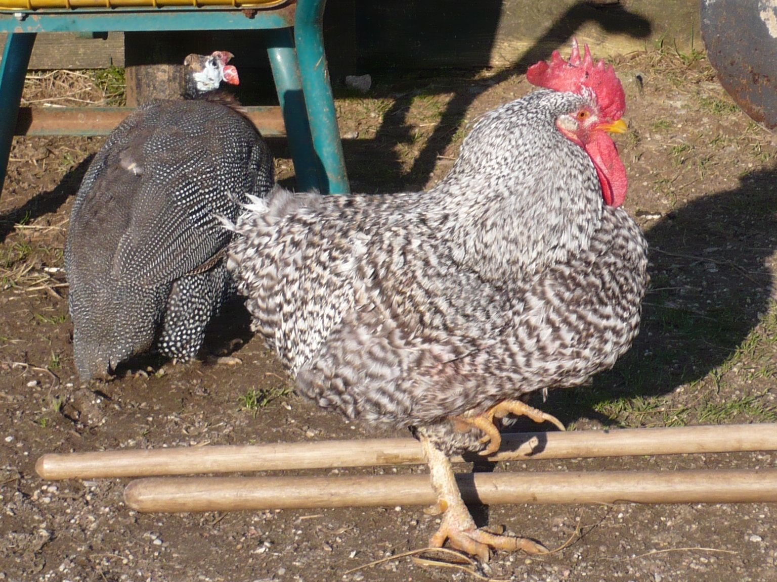 Pedres cock in Cabárceno Wildlife Park, Cantabria, Spain. Montañés: Gallu pedrés nel Parque de la ñatura de Cabárcenu, Cantabria.